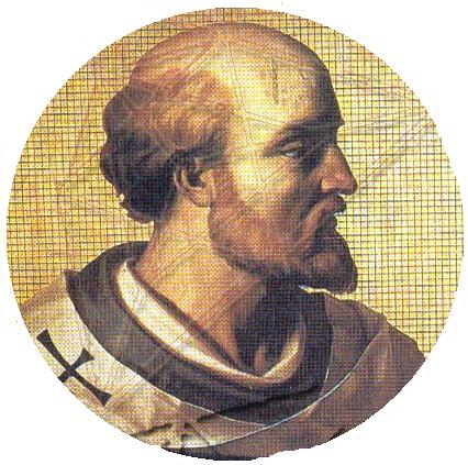 Impression of Pope Sylvester II, born Gerbert d'Aurillac. Along the nave of the Papal Basilica of Saint Paul Outside the Walls (Italian: Basilica Papale di San Paolo fuori le Mura), there are mosaics of all the popes, from Peter to Benedict XVI. This image is a reproduction of the depiction of Pope Sylvester II